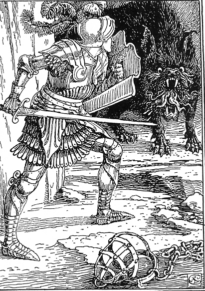 "Walter Crane's rendition of the Blatant Beast"